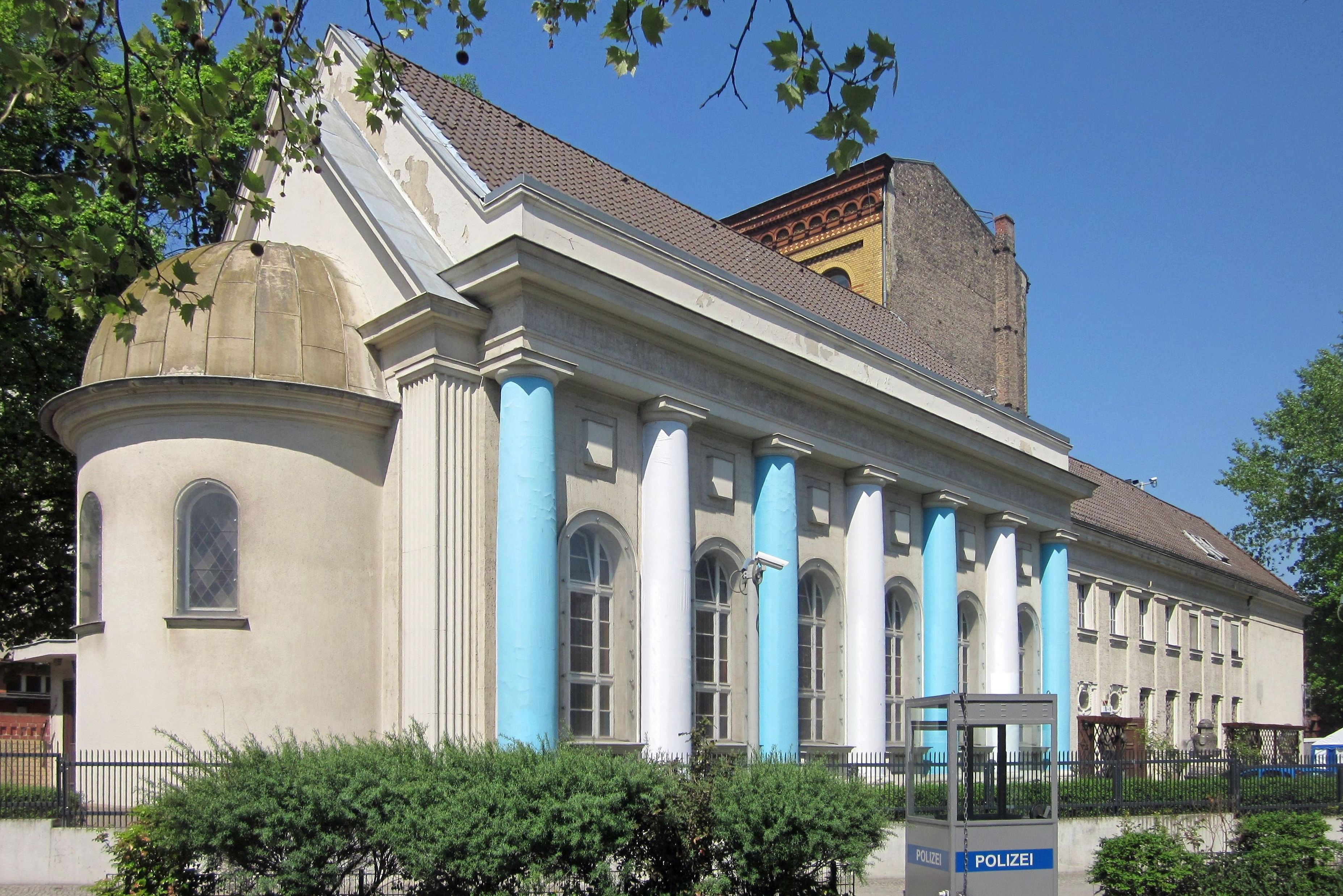 The Jugend-Synagoge (Youth Synagogue) at Fraenkelufer No. 10-16 in Berlin-Kreuzberg. The building was constructed from 1913 to 1916 to designs by Alexander Beer. It has been designated as a cultural heritage monument.